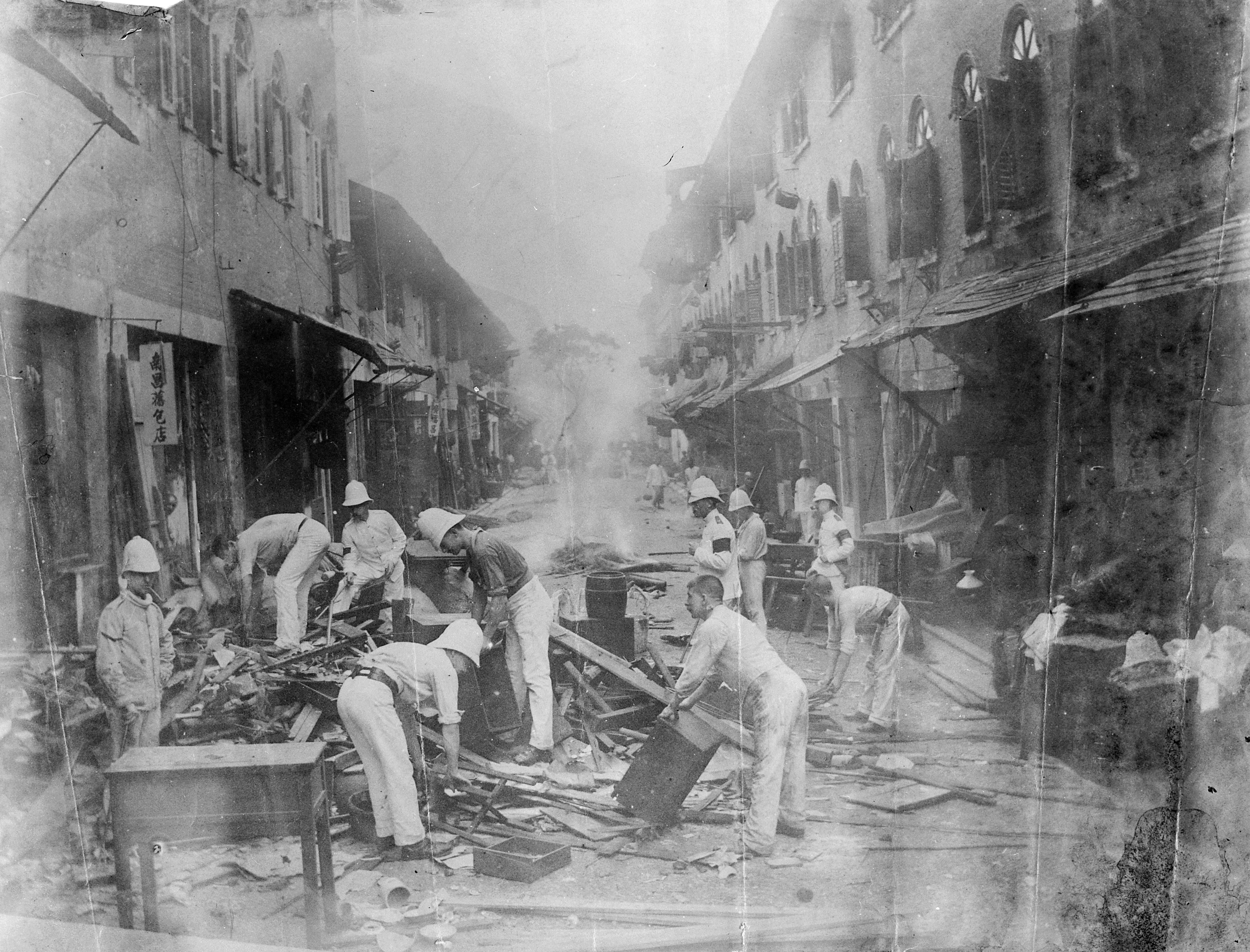 Number 66: the Staffordshire Regiment cleaning plague houses, Hong Kong. Archives & Manuscripts Keywords: public health: plague